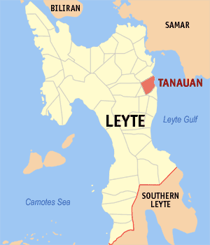 Map of Leyte showing the location of Tanauan